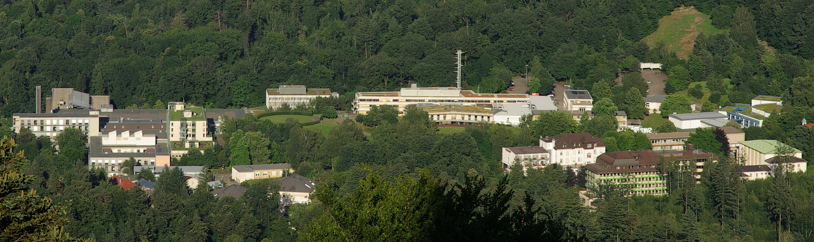 Complex of buildings of the Südwestrundfunk broadcasting company in Baden-Baden, seen from mount Fremersberg.